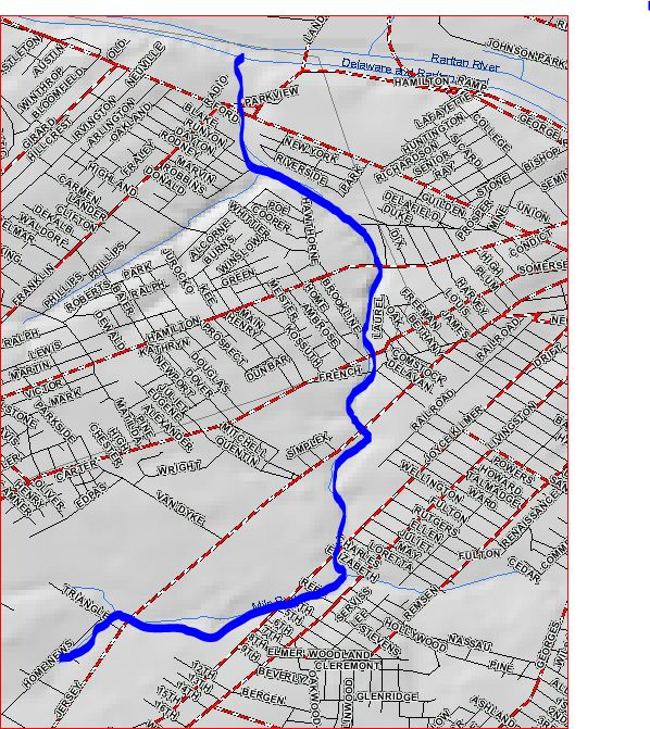 Map of Mile Run